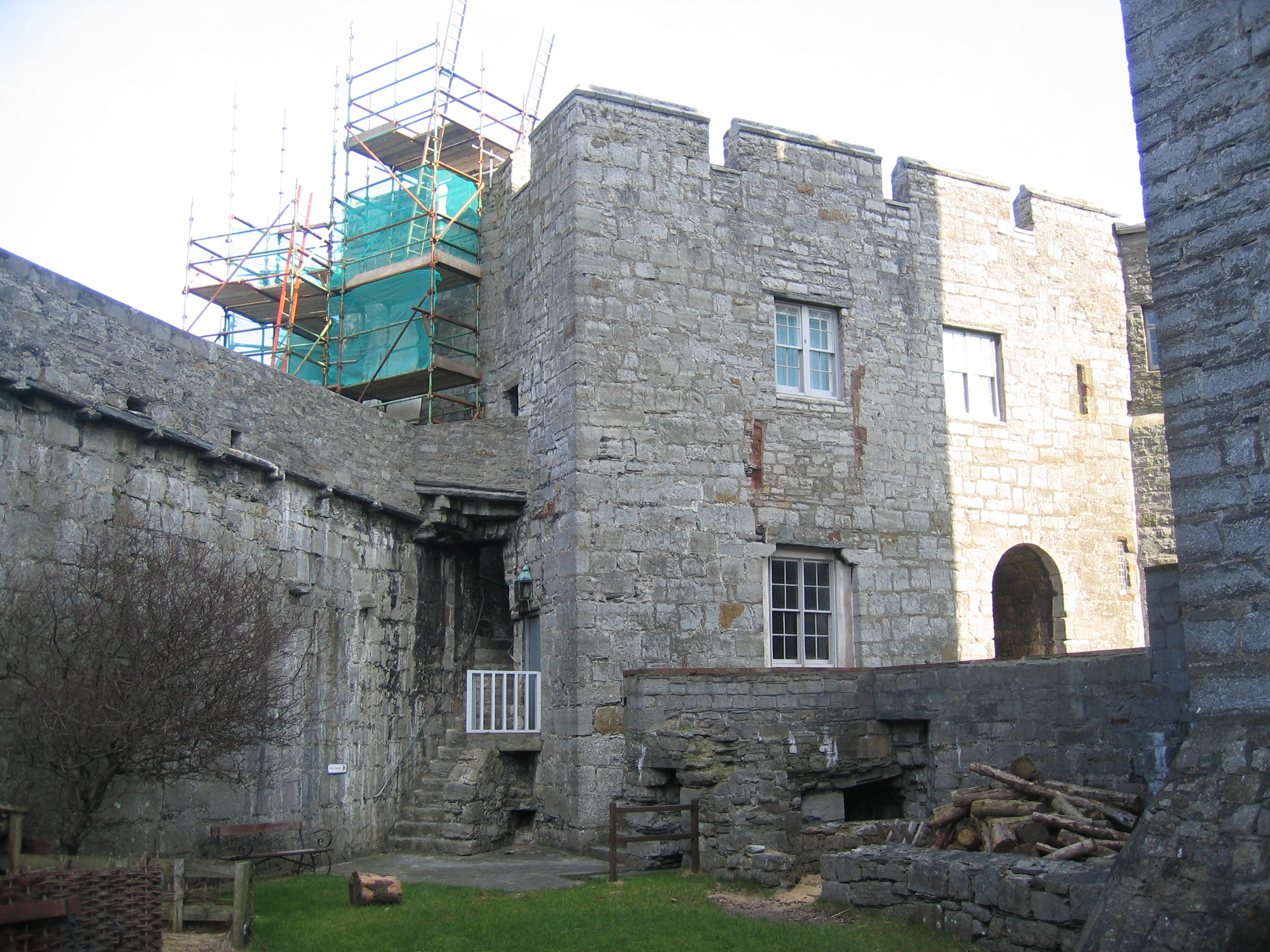 Castle Rushen's barbican as seen from inside the curtain wall on March 23rd. 2006, 01.54 p.m. Taken during my trip to the Isle of Man March 22. to 26. Manxruler 21:54, 4 September 2006 (UTC)